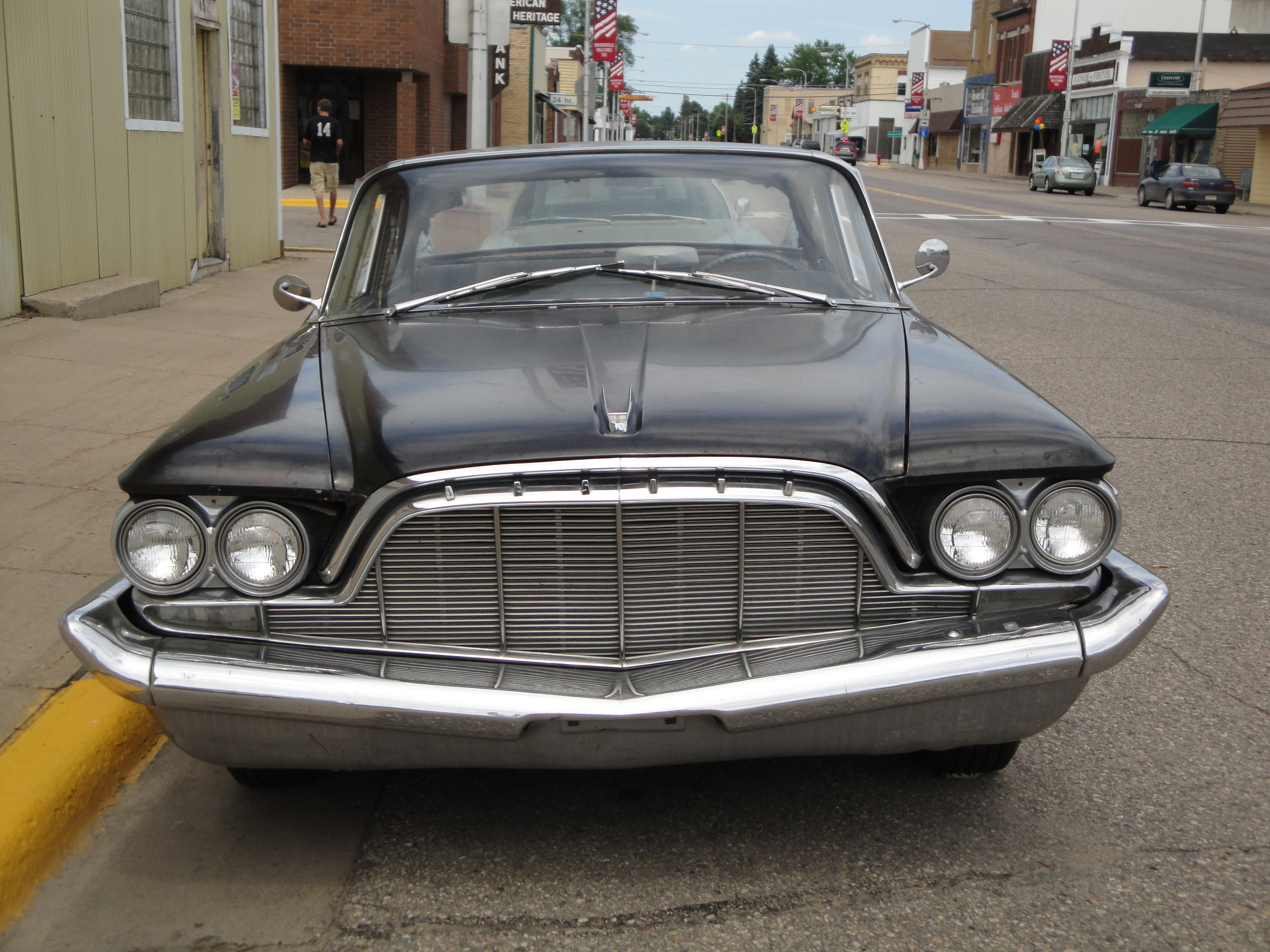 I travelled Up North to my family's cabin to meet a friend that was visiting from California. I spotted some cars along the way and took some shots.